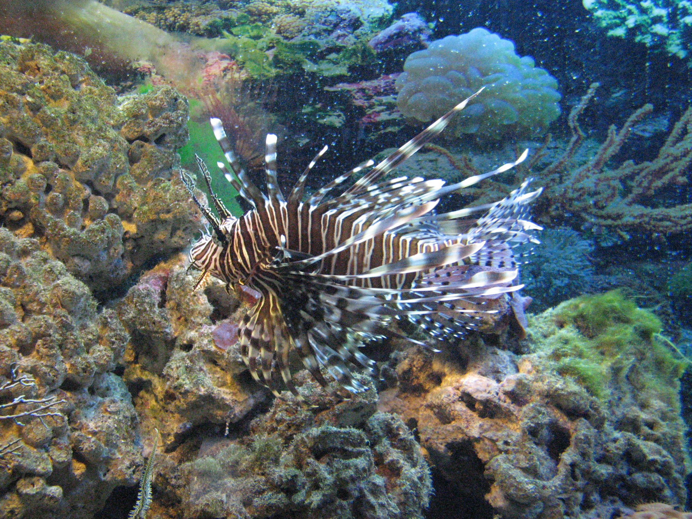 Red Lionfish (ZOO in Chorzów, Poland)